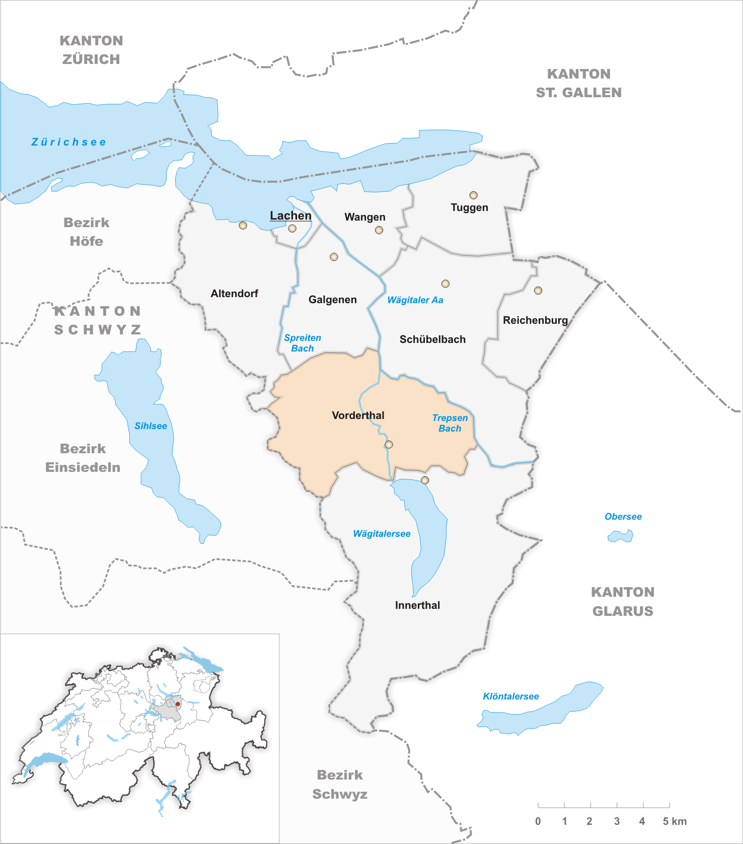 Municipality Vorderthal